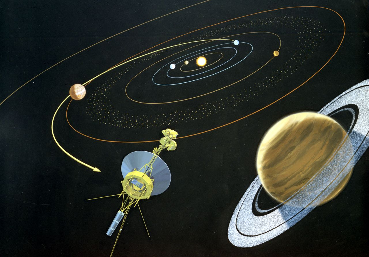 In August 1977 the first of two Voyager spacecraft was launched on a Grand Tour of four of the Outer Planets, the Gas Giants. Voyager 1 and 2 are still traveling, now leaving the Solar System, their planetary encounters completed. NASA and JPL initially referred to this long term project as the Mariner-Jupiter-Saturn 1977 Project or MJS'77. The two Voyagers were advanced versions of the Mariner-class spacecraft that JPL had flown successfully to Venus, Mars, and Mercury. Shown here is a 1975 JPL artist's rendering of Voyager after encountering Jupiter and, after a gravity assist, approaching Saturn.